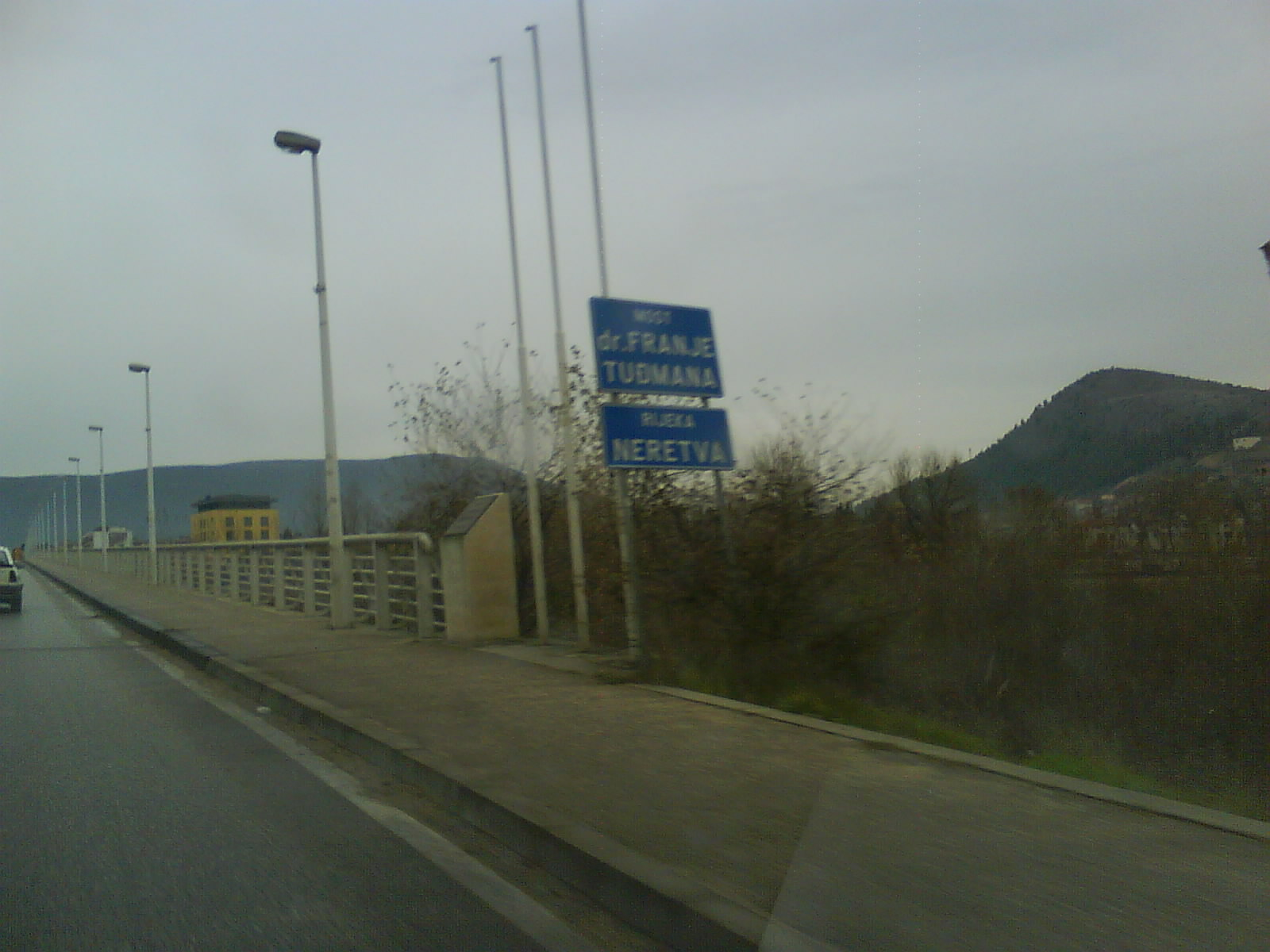 Sign indicating the Dr. Franjo Tuđman Bridge in Čapljina, Bosnia and Herzegovina.